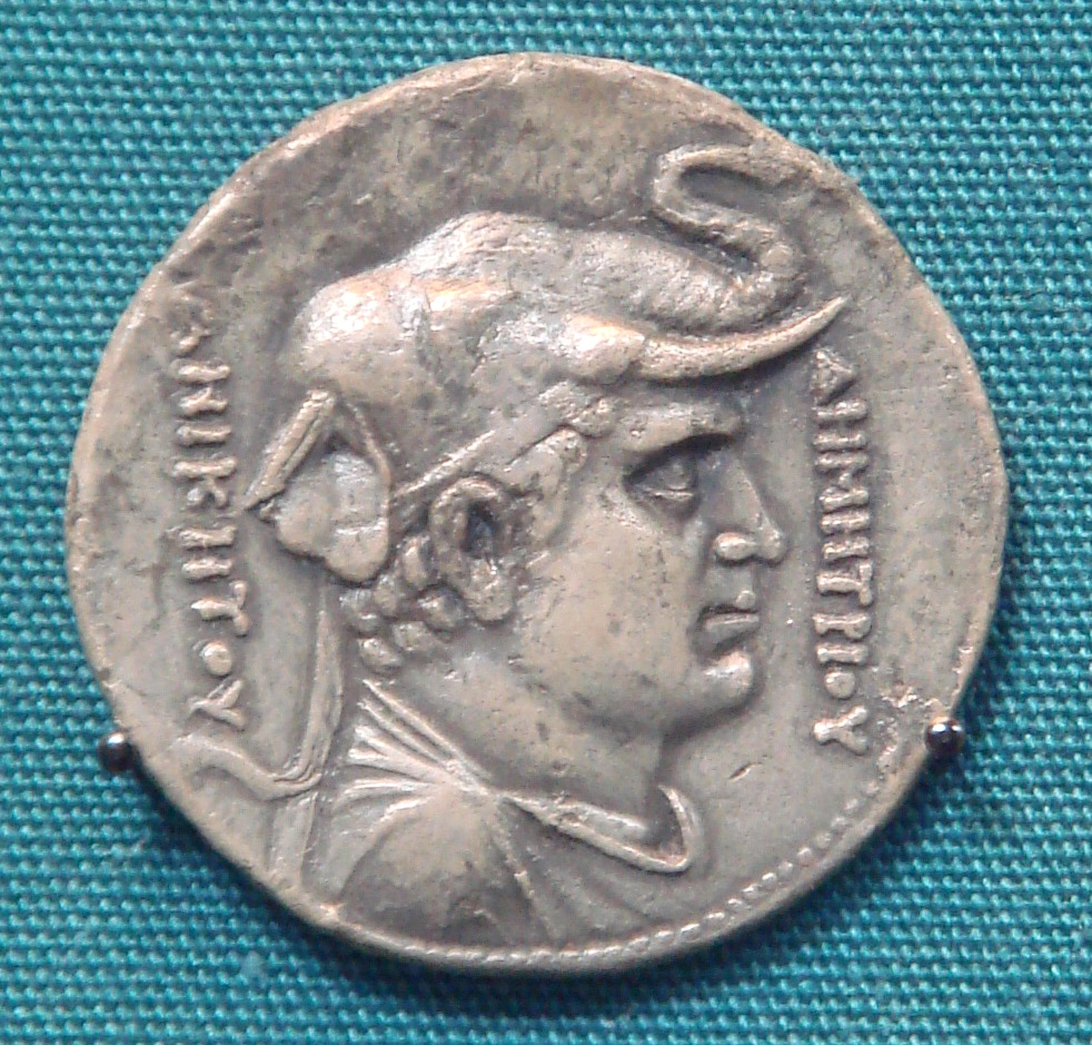 Agatokles coin with effigy of Demetrius